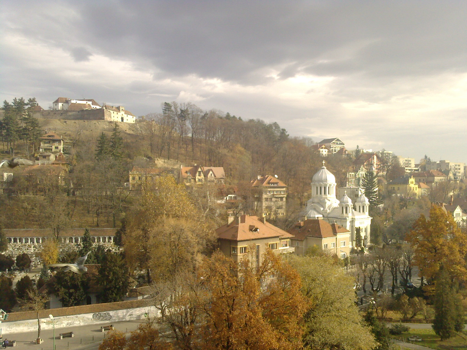 View from Brasov, Romania